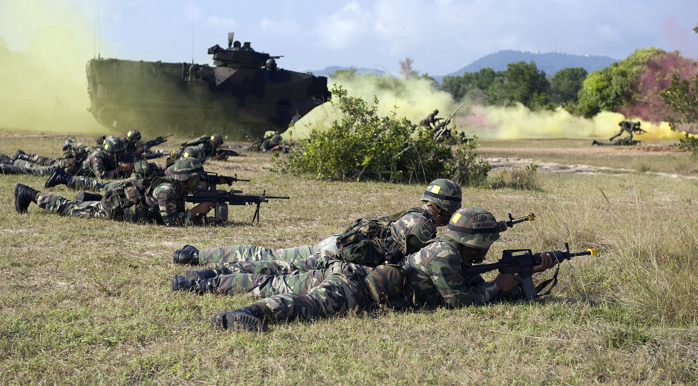 090701-N-1722M-231 TERENGGANU, Malaysia (July 1, 2009) Soldiers from the Malaysian Army 9th Royal Malay Regiment carry out a beach assault with U.S. Marines during a combined amphibious landing exercise on the final day of Cooperation Afloat Readiness and Training (CARAT) Malaysia 2009. CARAT is a series of bilateral exercises held annually in Southeast Asia to strengthen relationships and enhance the operational readiness of the participating forces. (U.S. Navy photo by Mass Communication Specialist 1st Class Michael Moriatis/Released)